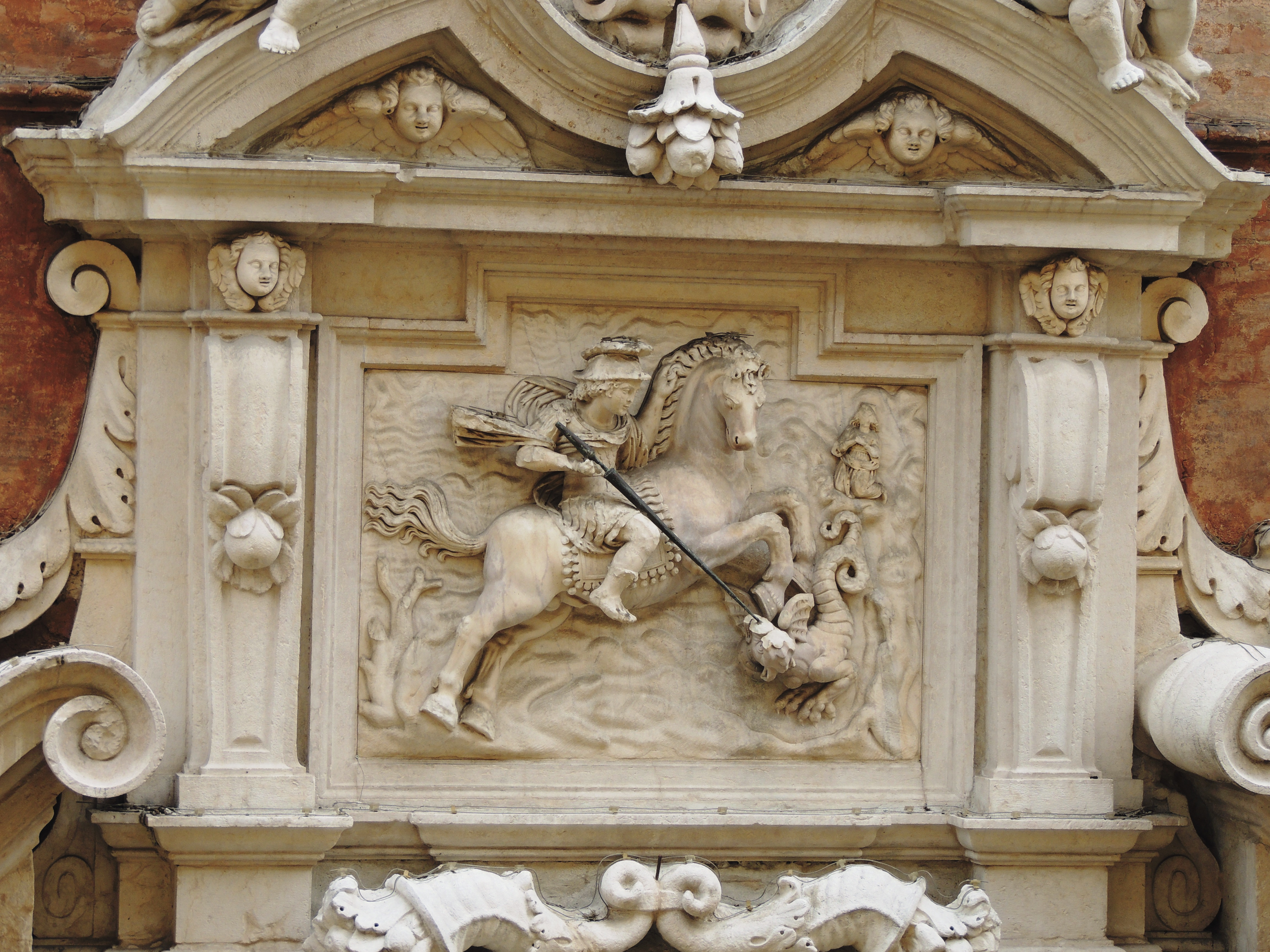 High-relief representing St. George slaying the dragon, detail of the entrance portal of the Church of San Giorgio in Reggio Emilia, Italy. Picture taken by me, august 2014